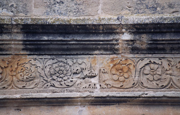 Favara mausoleum. Favara, Saragossa